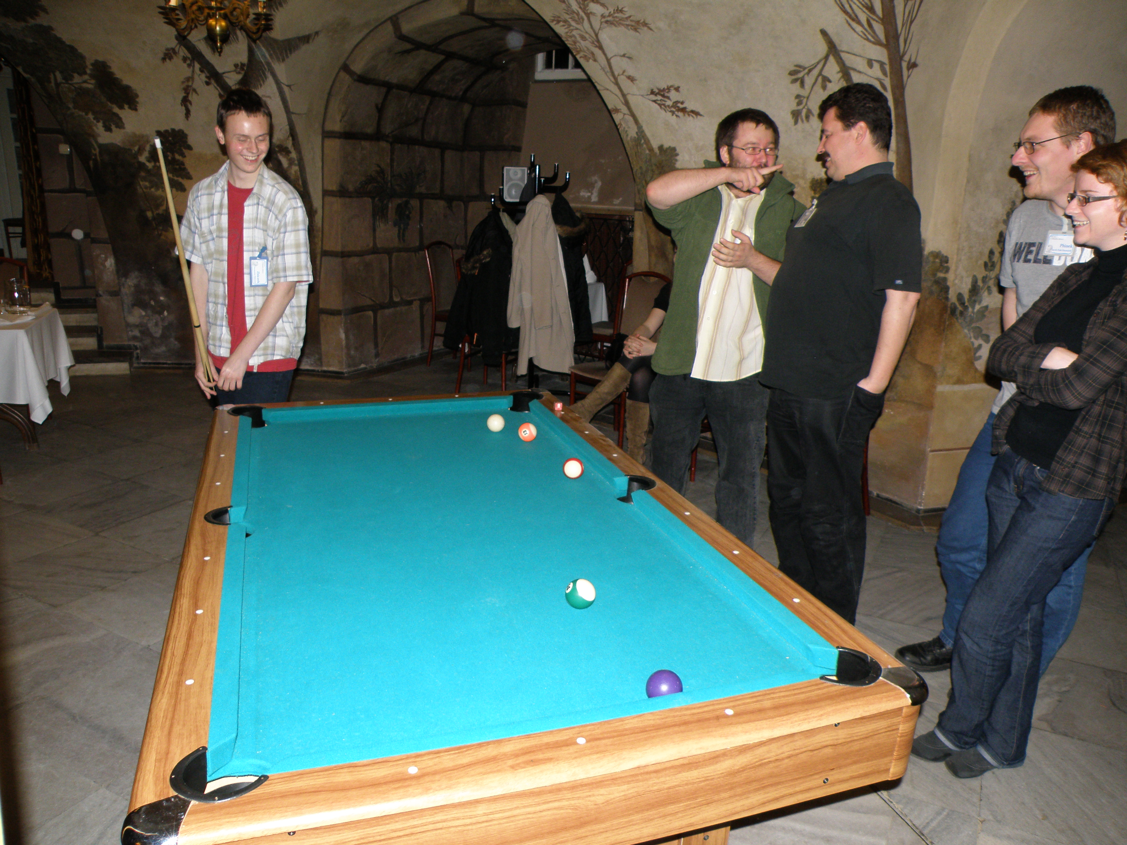 GDJ 2010